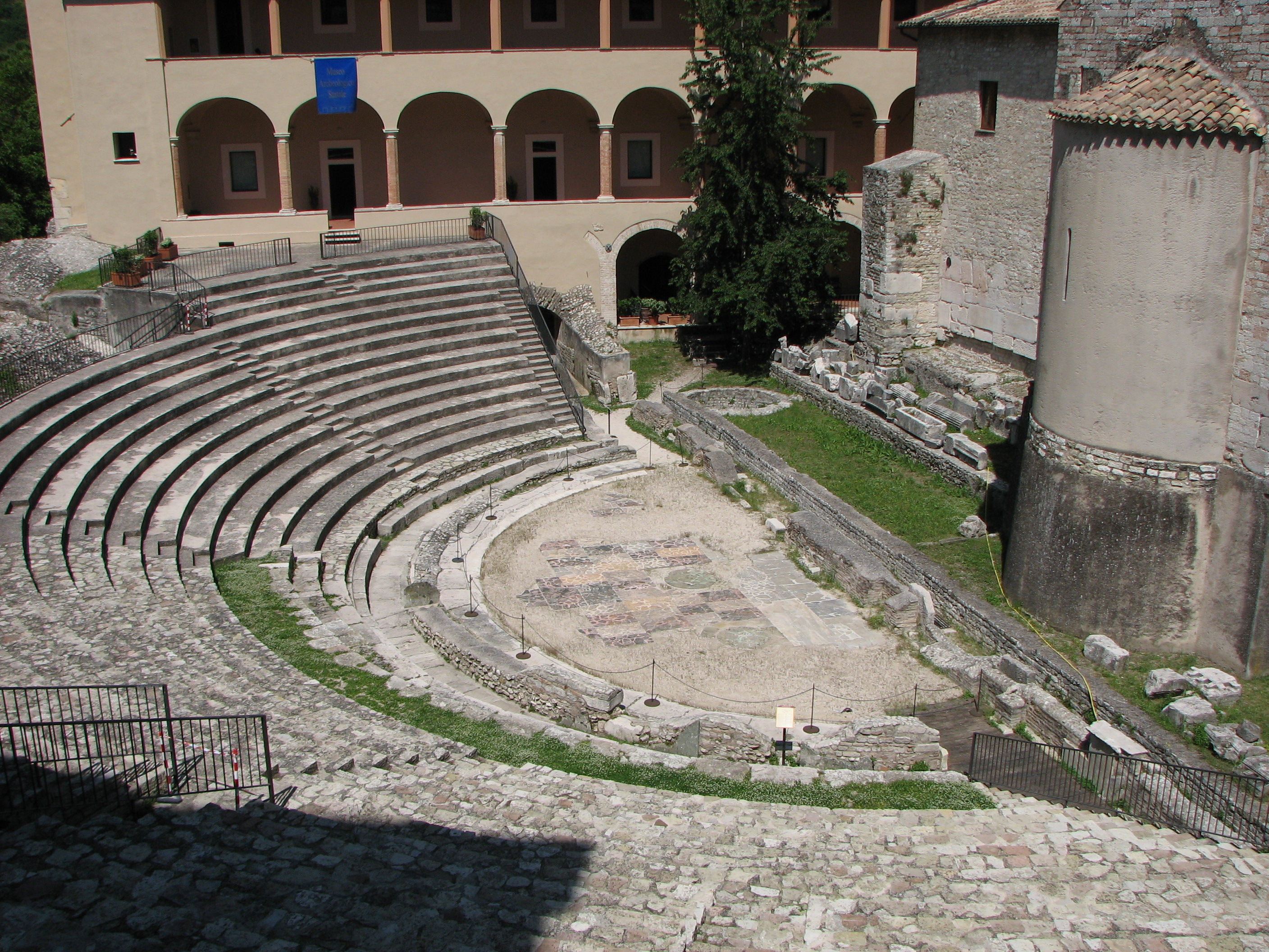 Ancient Roman theatre (Spoleto)